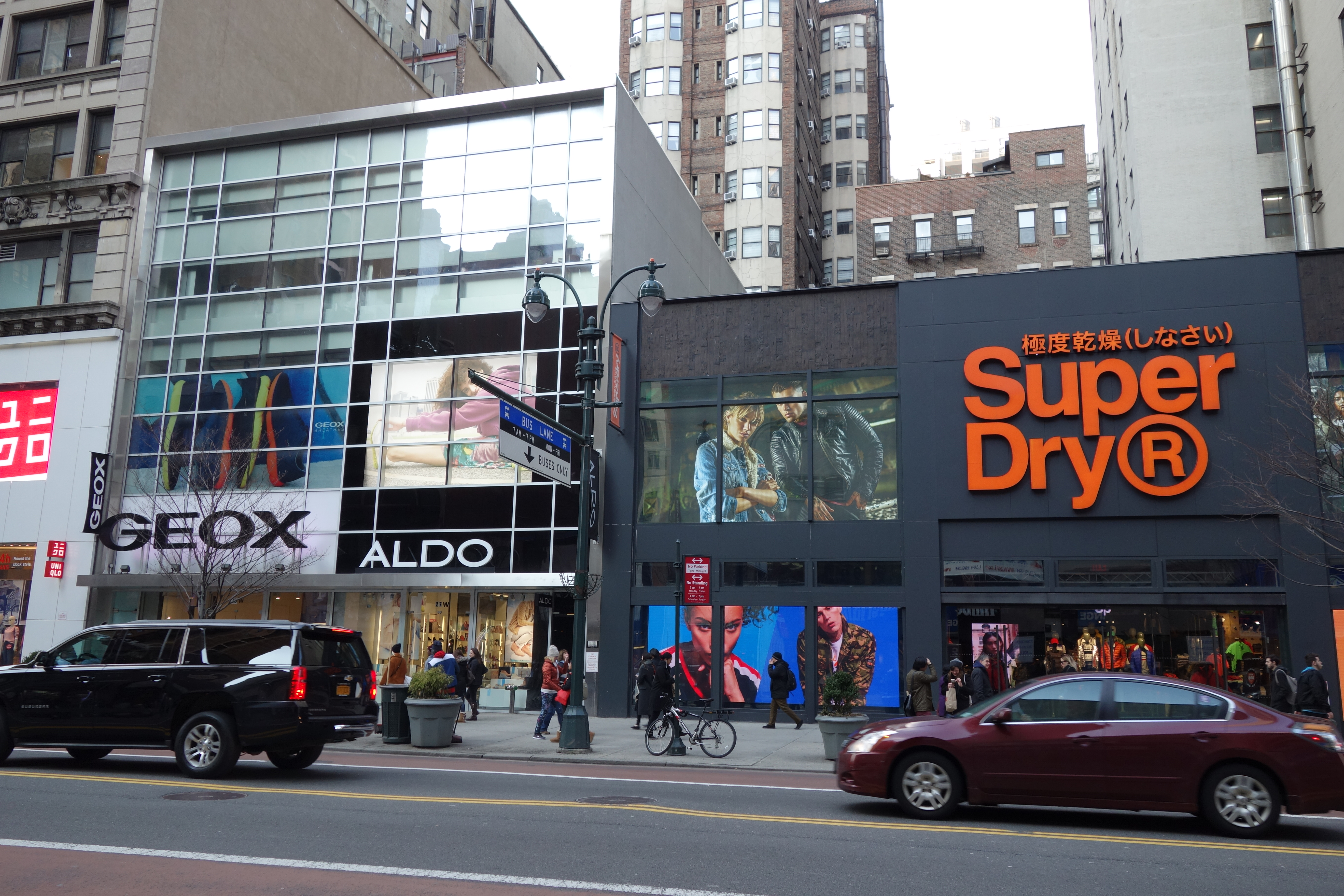 A Superdry shop (right), and a Geox store (left), on 34th Street between 5th and 6th Avenues in the Garment District / Herald Square, Manhattan.